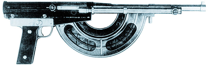 The Chauchat-Ribeyrolles 1918 submachine gun